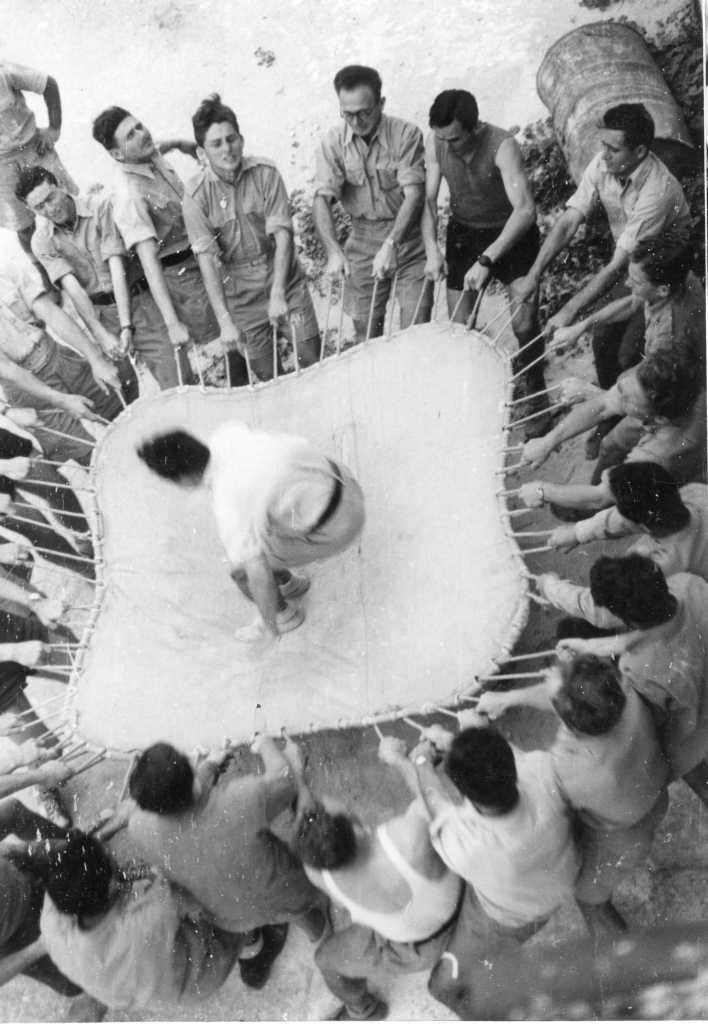 The Palmach, Sports in Israel